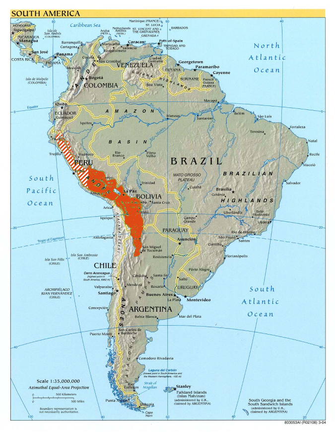 Distribution of Colaptes rupicola (orange) and Colaptes cinereicapillus (shaded)